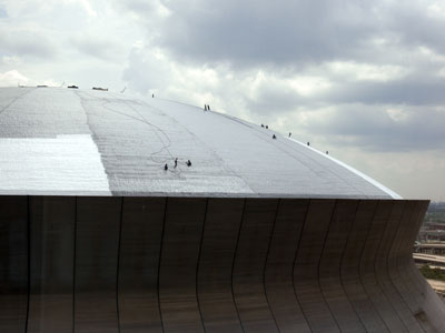 I took this photograph on July 10, 2006 from the 14th floor of a building across the street from the Louisiana Superdome. It shows the workers repairing the roof damage caused by Hurricane Katrina on August 29, 2005.